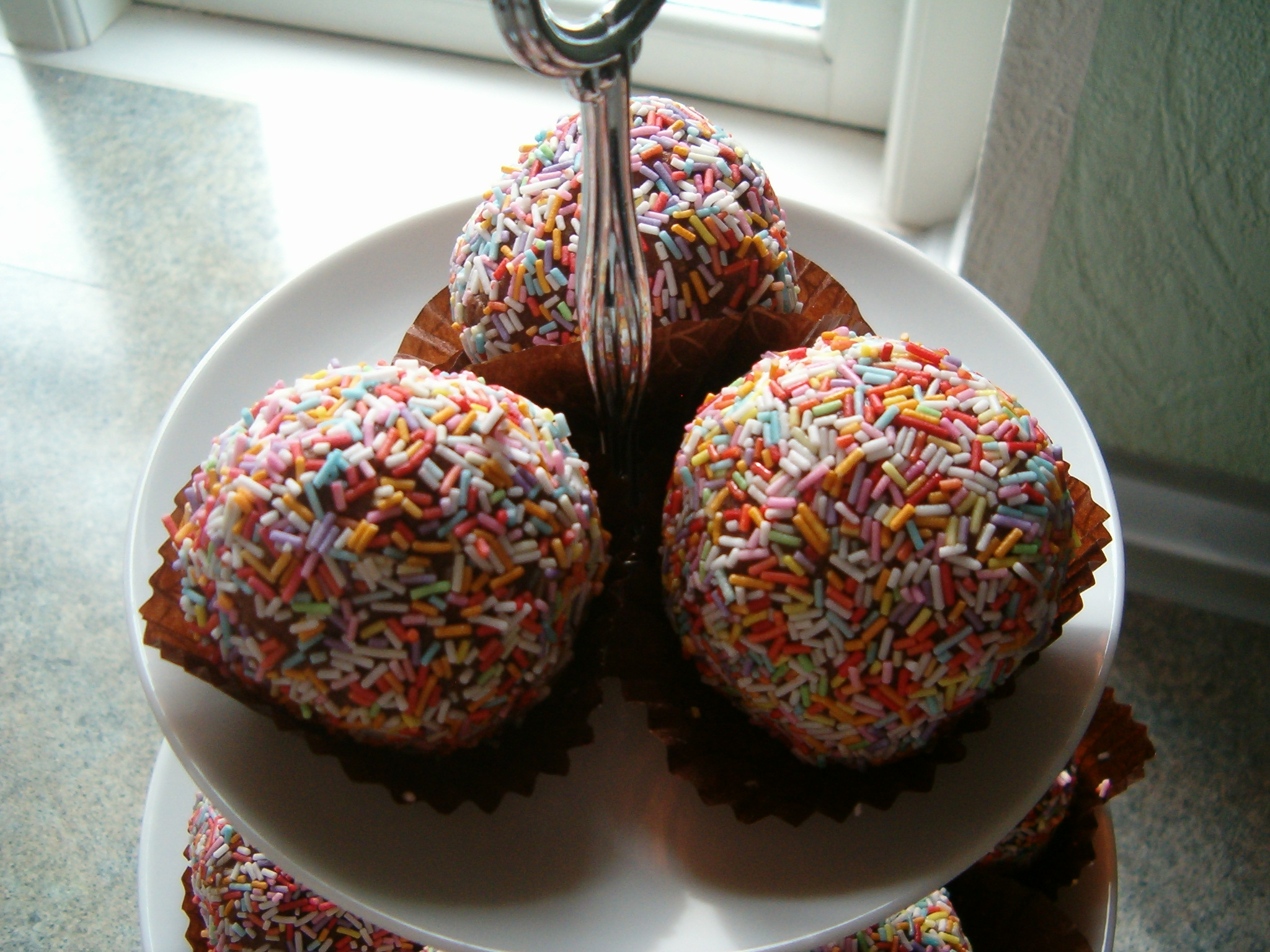 Three rum balls with coloured sprinkles (from Denmark)